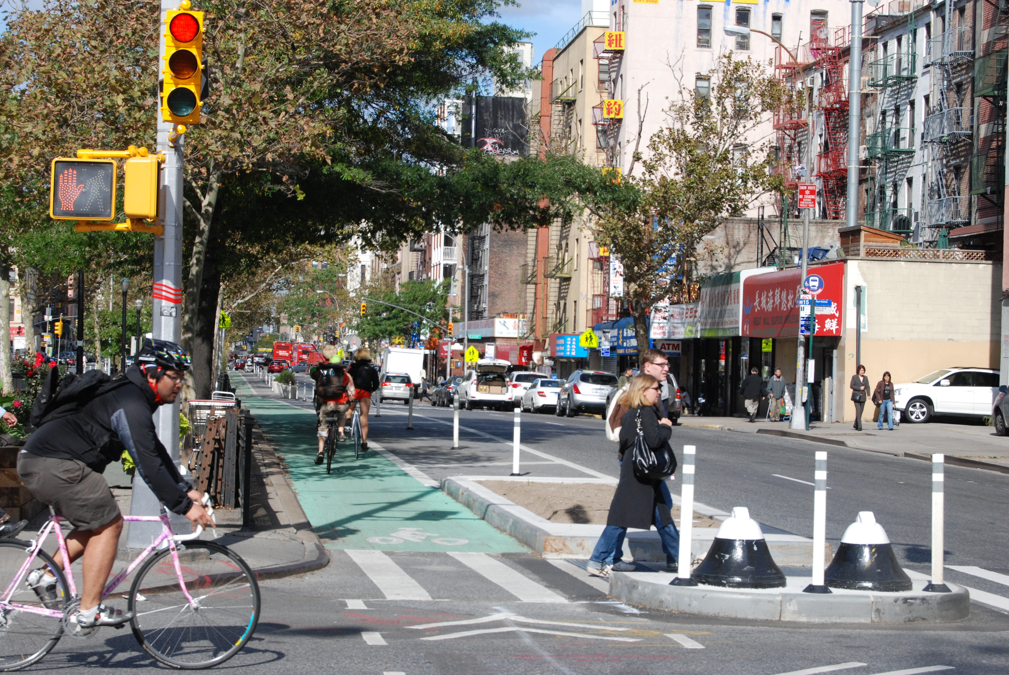 Looking north across Canal Street at new physically Separated Bike Lanes on Allen Street in New York City.